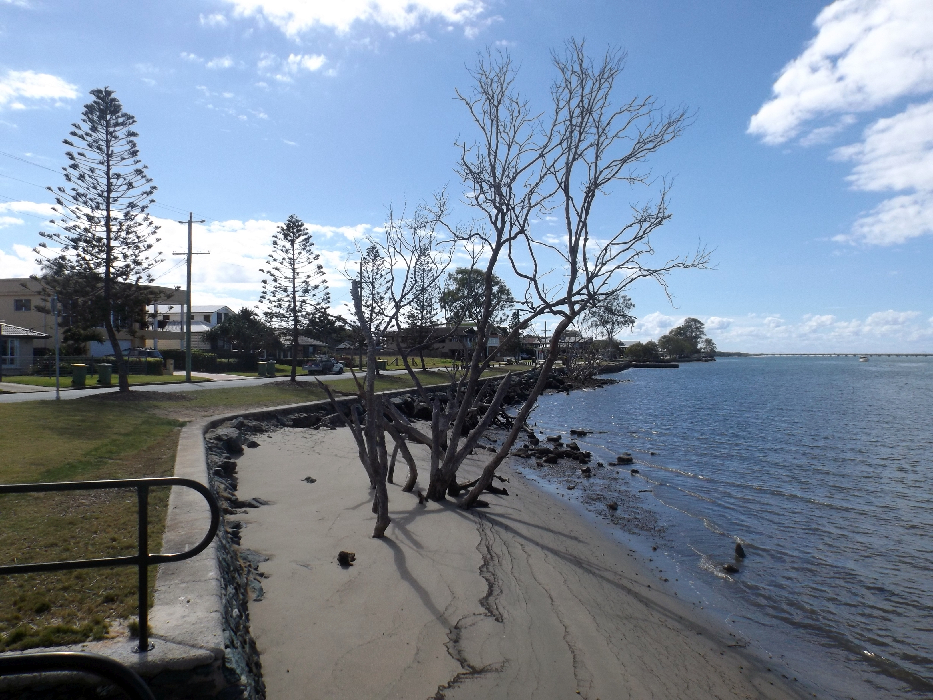 Photo of Dohls Rocks Road and Pine River at Griffin, Moreton Bay Region, Queensland, Australia.